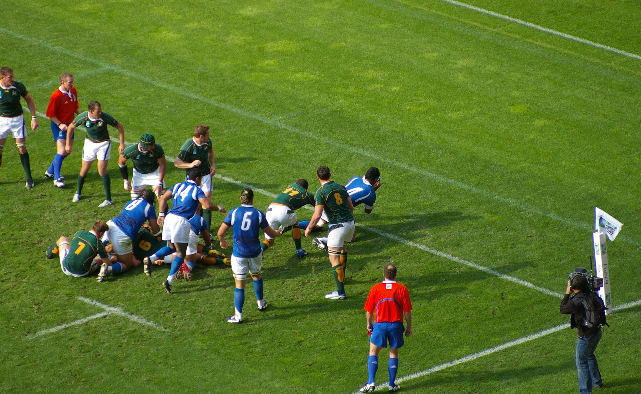 South Africa - Samoa Rugby World Cup 2007 Paris. Parc des Princes